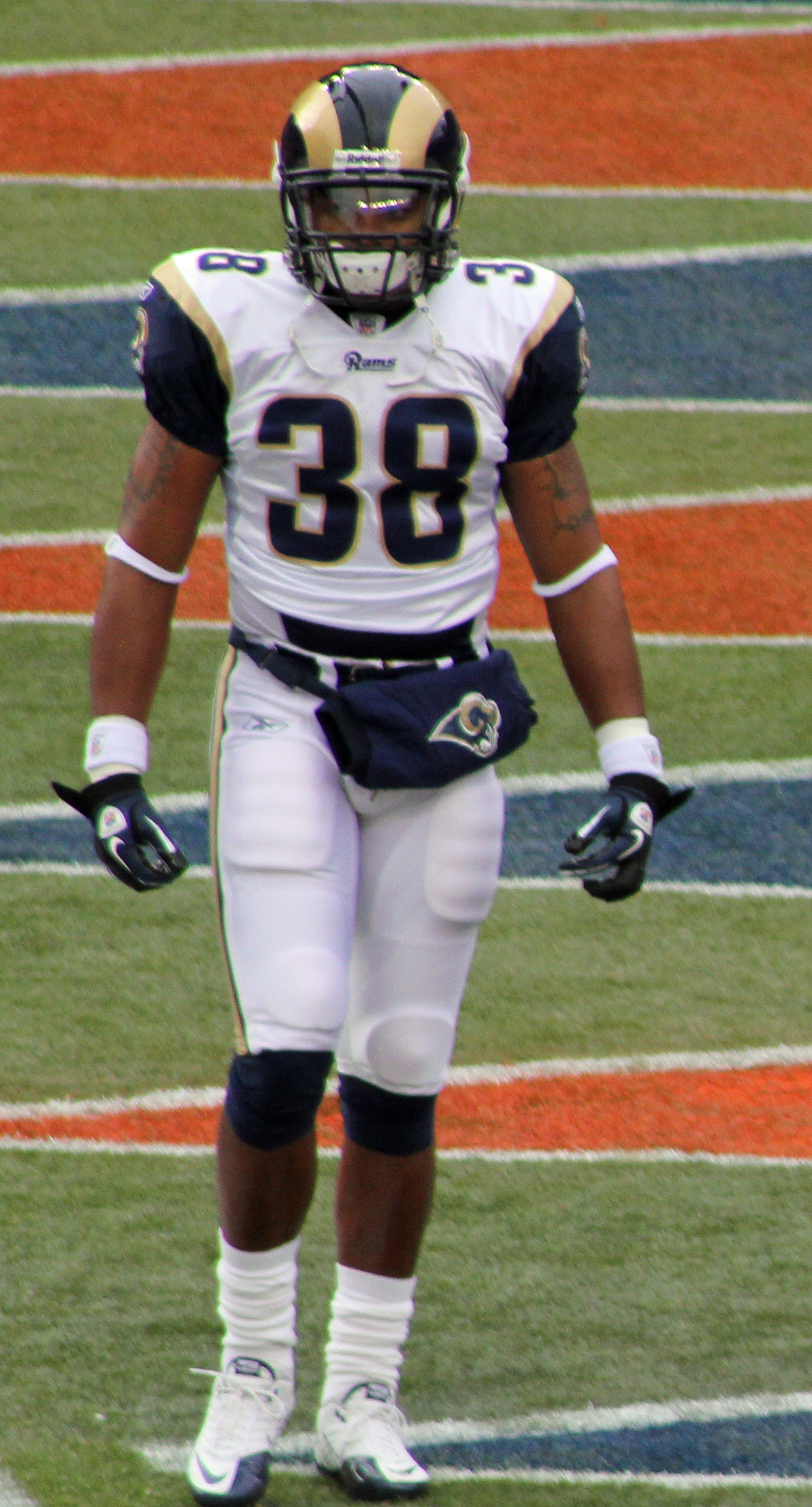 Keith Toston, a player on the Saint Louis Rams American football team.